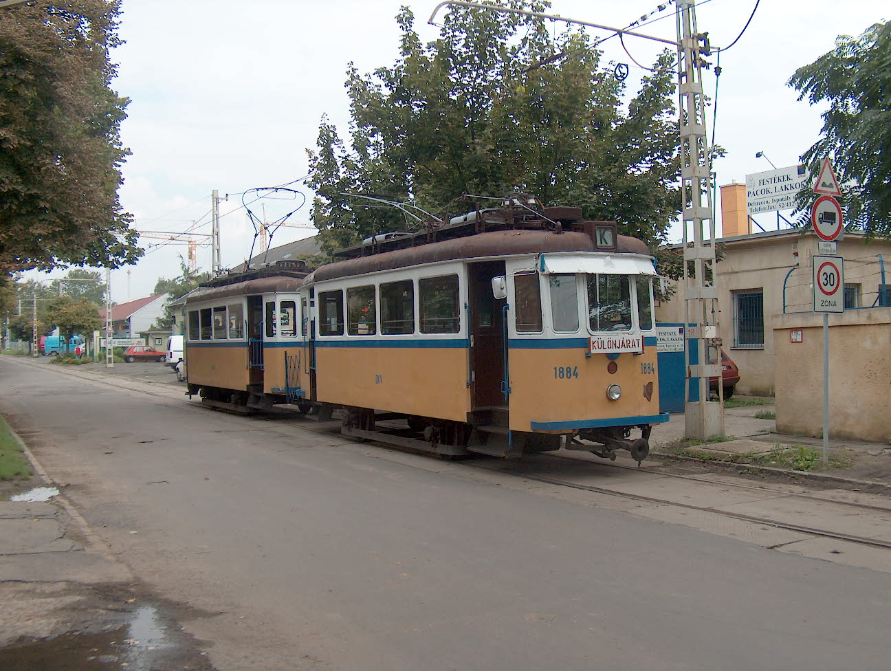 Nostalgic tram in Debrecen